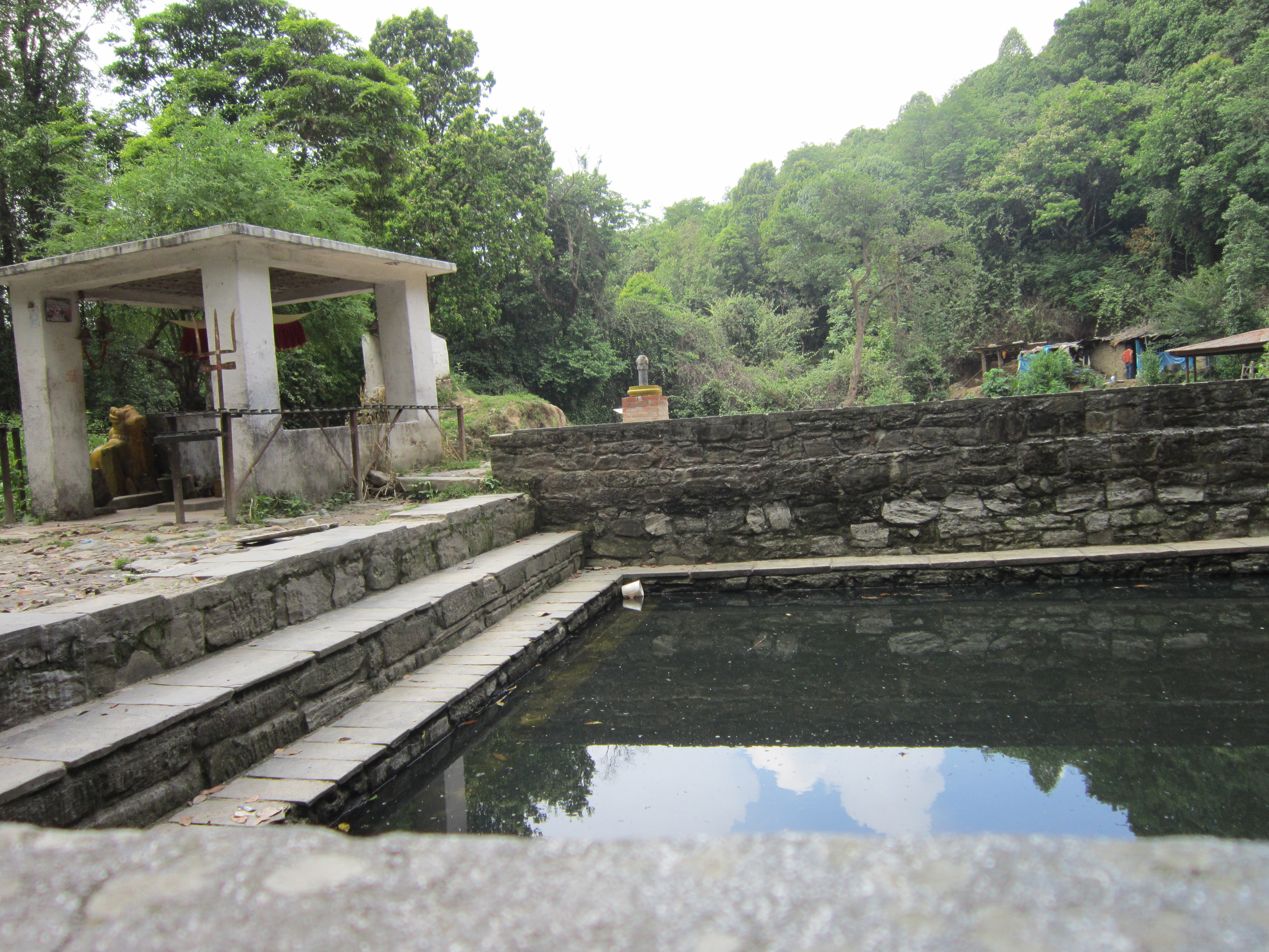 Nagarkot